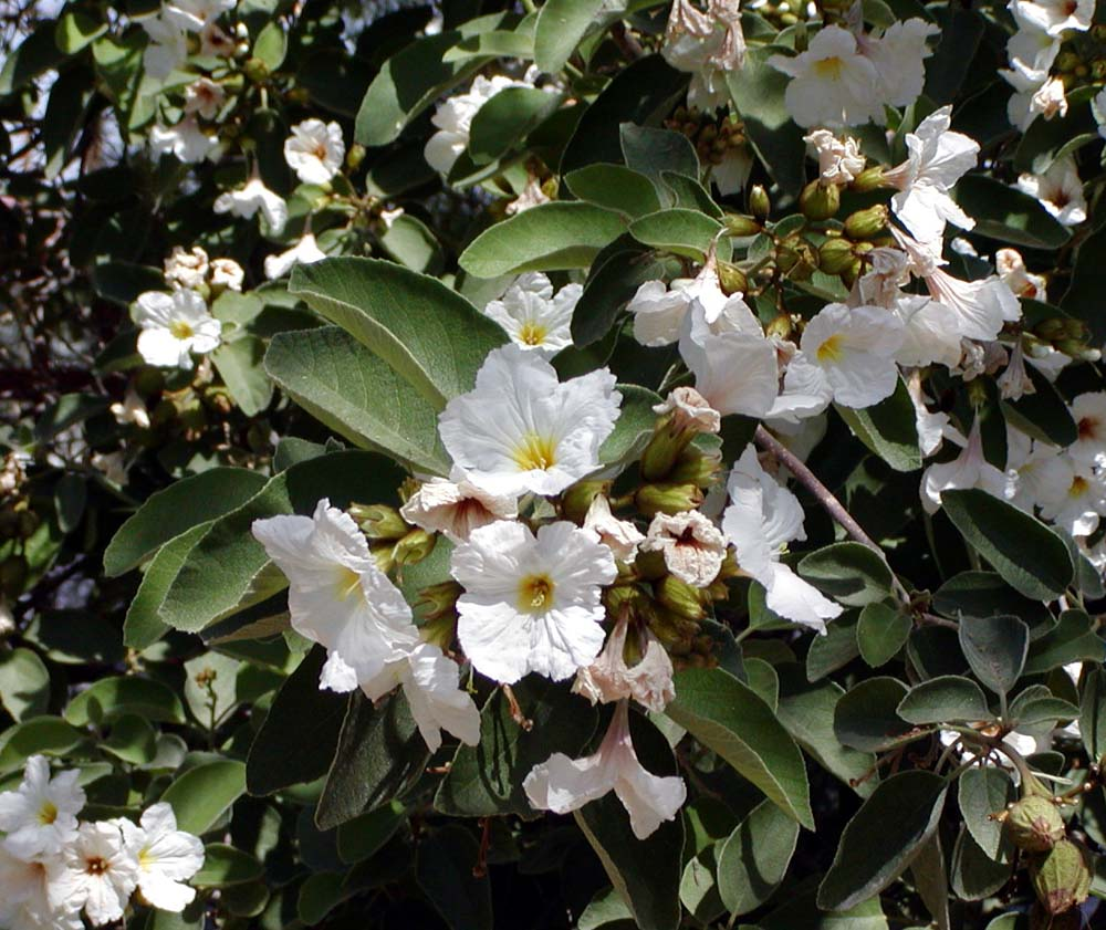 Photo of Cordia boisseri (Texas olive) flowers at the Desert Demonstration Garden in Las Vegas